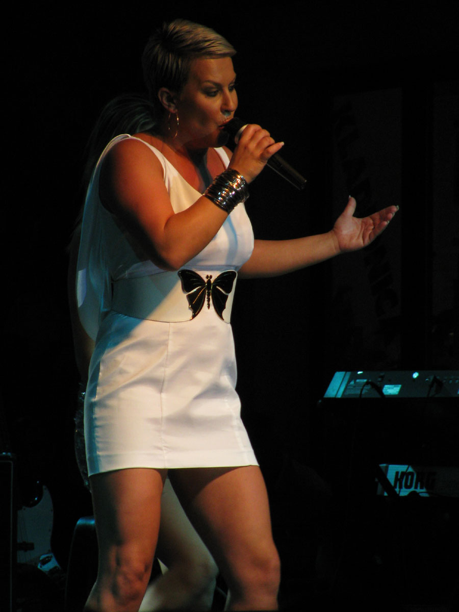 Indira Vladić in Jelsa, Croatia